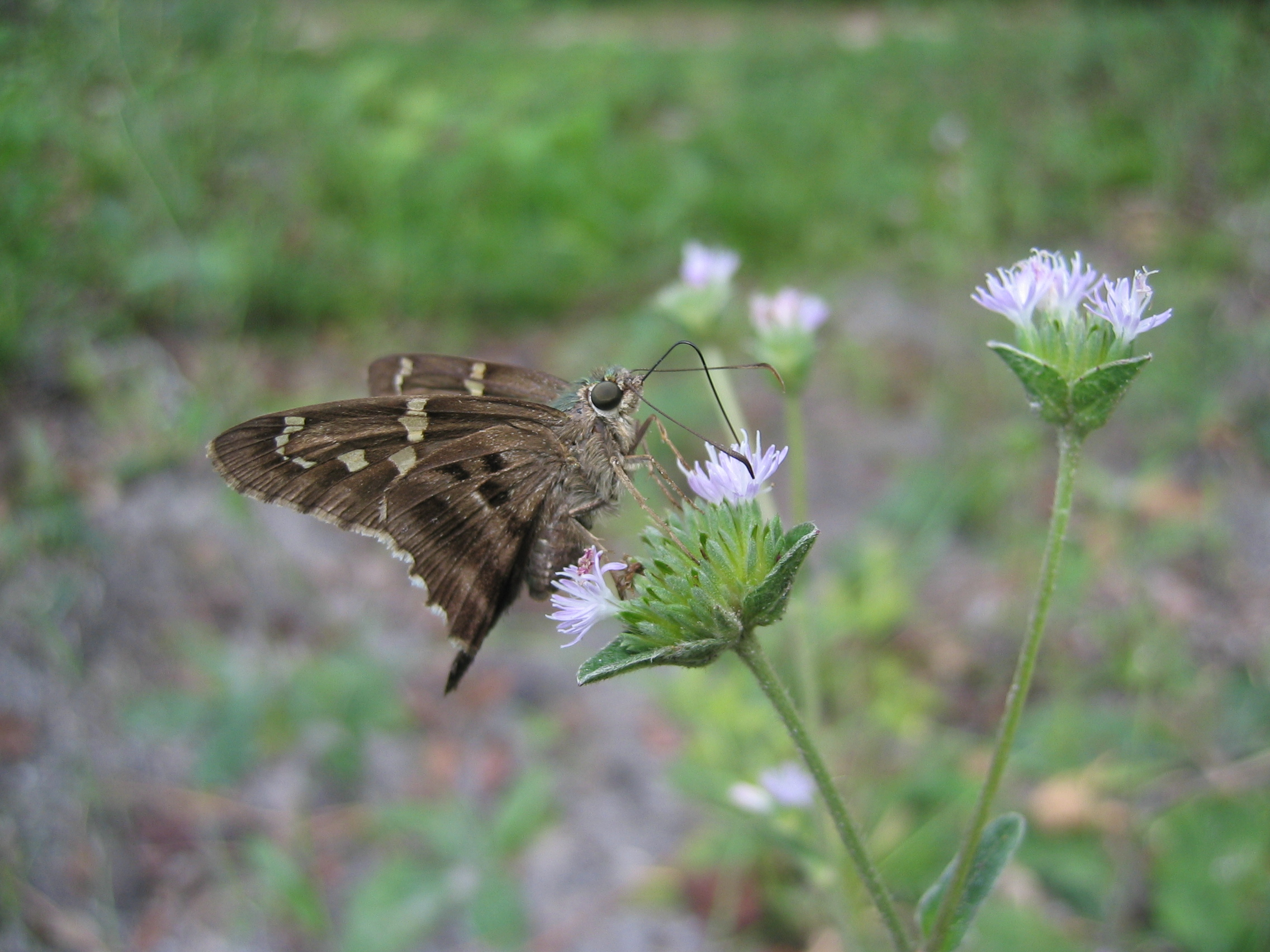 Photo of a Long-tailed Skipper Urbanus proteus. Found in northern Florida, USA.